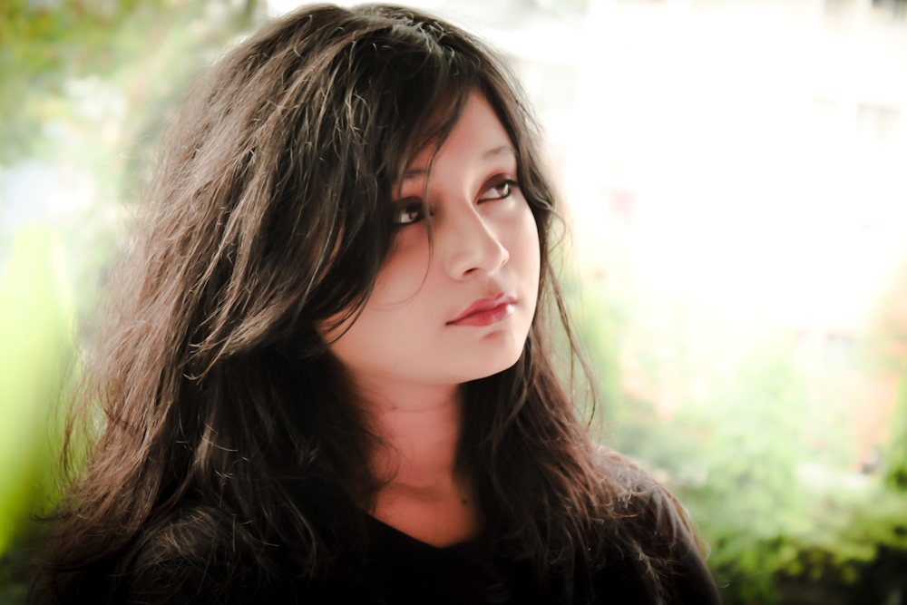 Picture of Tania Tarannam